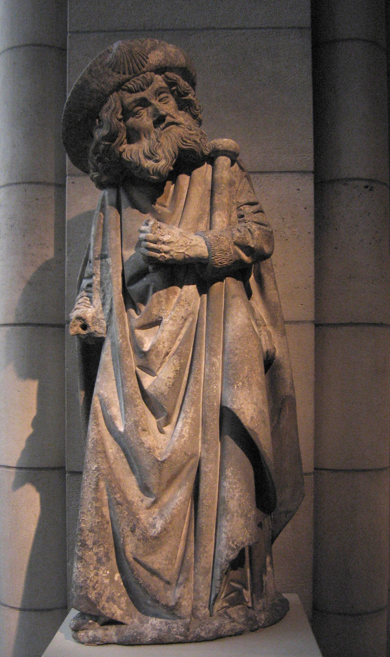 Saint James the Greater, last quarter of 15th century. French, Burgundy. Limestone, formerly polychromed. Metropolitan Museum of Art, New York City. Bequest of Isaac D. Fletcher, 1917.